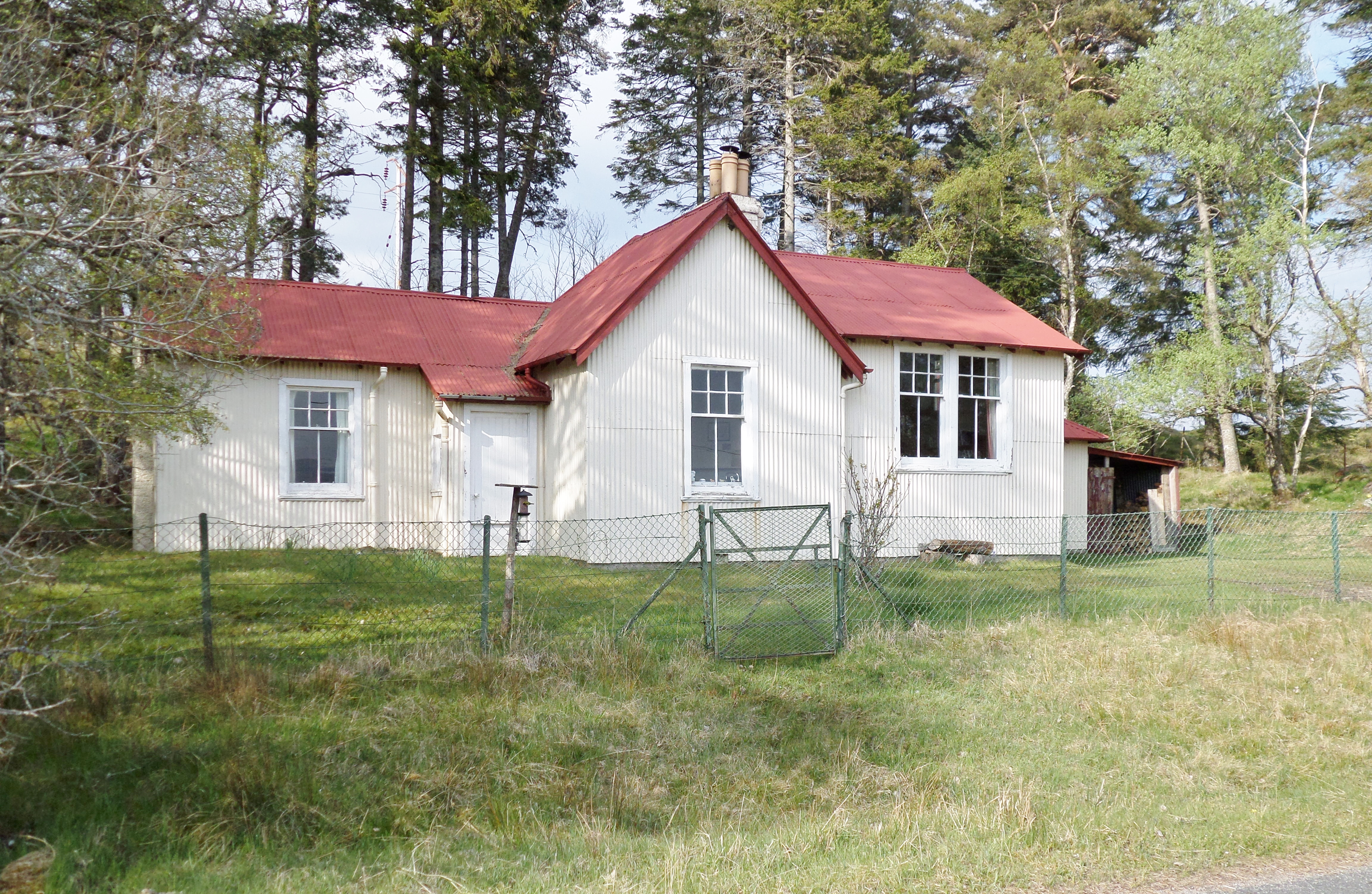 Old Rannoch railway station school building, east of the station, West Highland Line, Scotland.